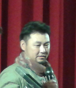 Zhao Dayong at the 64th Berlinale in Berlin.